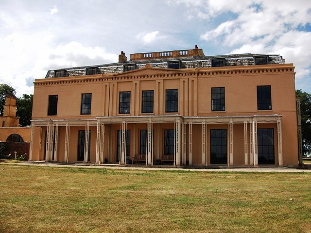 The south-east facade of Moggerhanger House